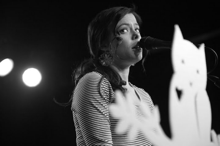 Lenka performs during her 2009 solo tour of the USA.